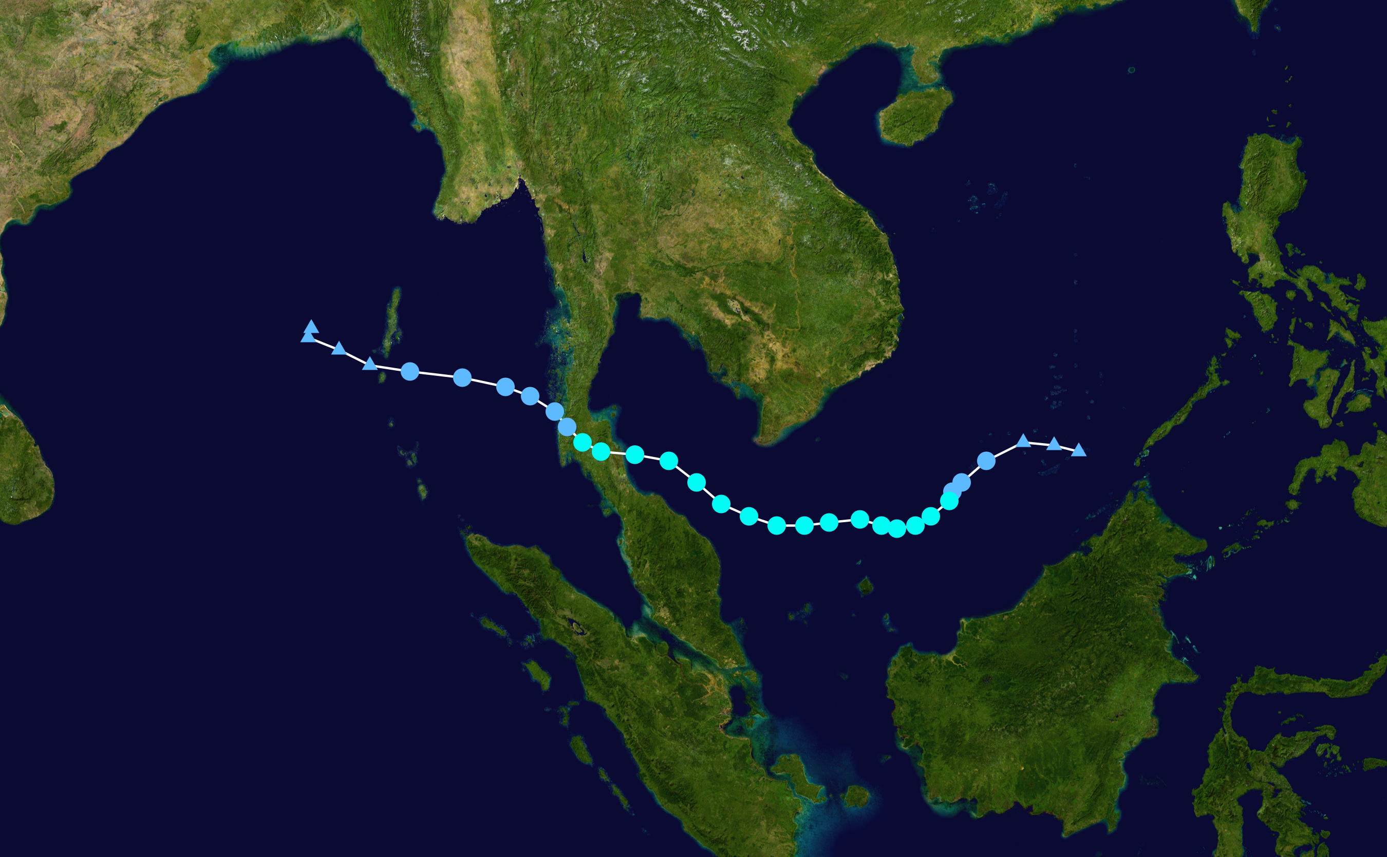 Track map of Tropical Storm Pabuk/Cyclonic Storm Pabuk of the 2019 Pacific typhoon season and the 2019 North Indian Ocean cyclone season. The points show the location of the storm at 6-hour intervals. The colour represents the storm's maximum sustained wind speeds as classified in the Saffir–Simpson scale (see below), and the shape of the data points represent the nature of the storm, according to the legend below. Saffir–Simpson scale Tropical depression≤38 mph≤62 km/h Category 3111–129 mph178–208 km/h Tropical storm39–73 mph63–118 km/h Category 4130–156 mph209–251 km/h Category 174–95 mph119–153 km/h Category 5≥157 mph≥252 km/h Category 296–110 mph154–177 km/h Unknown Storm type Tropical cyclone Subtropical cyclone Extratropical cyclone / Remnant low / Tropical disturbance / Monsoon depression